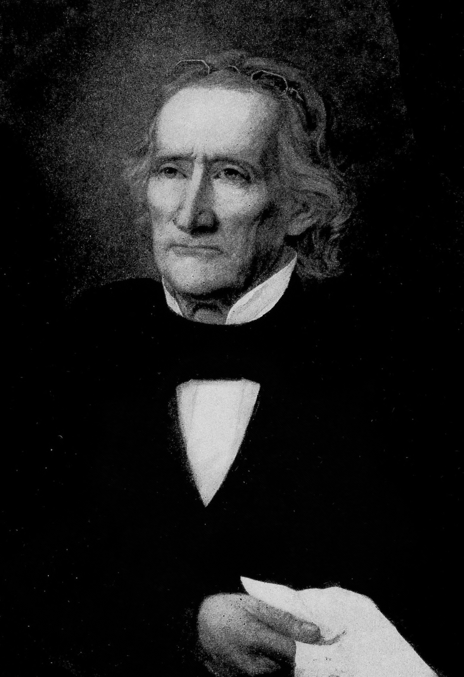 A governor of Ohio named Allen Trimble, from a painting at the Ohio Statehouse.